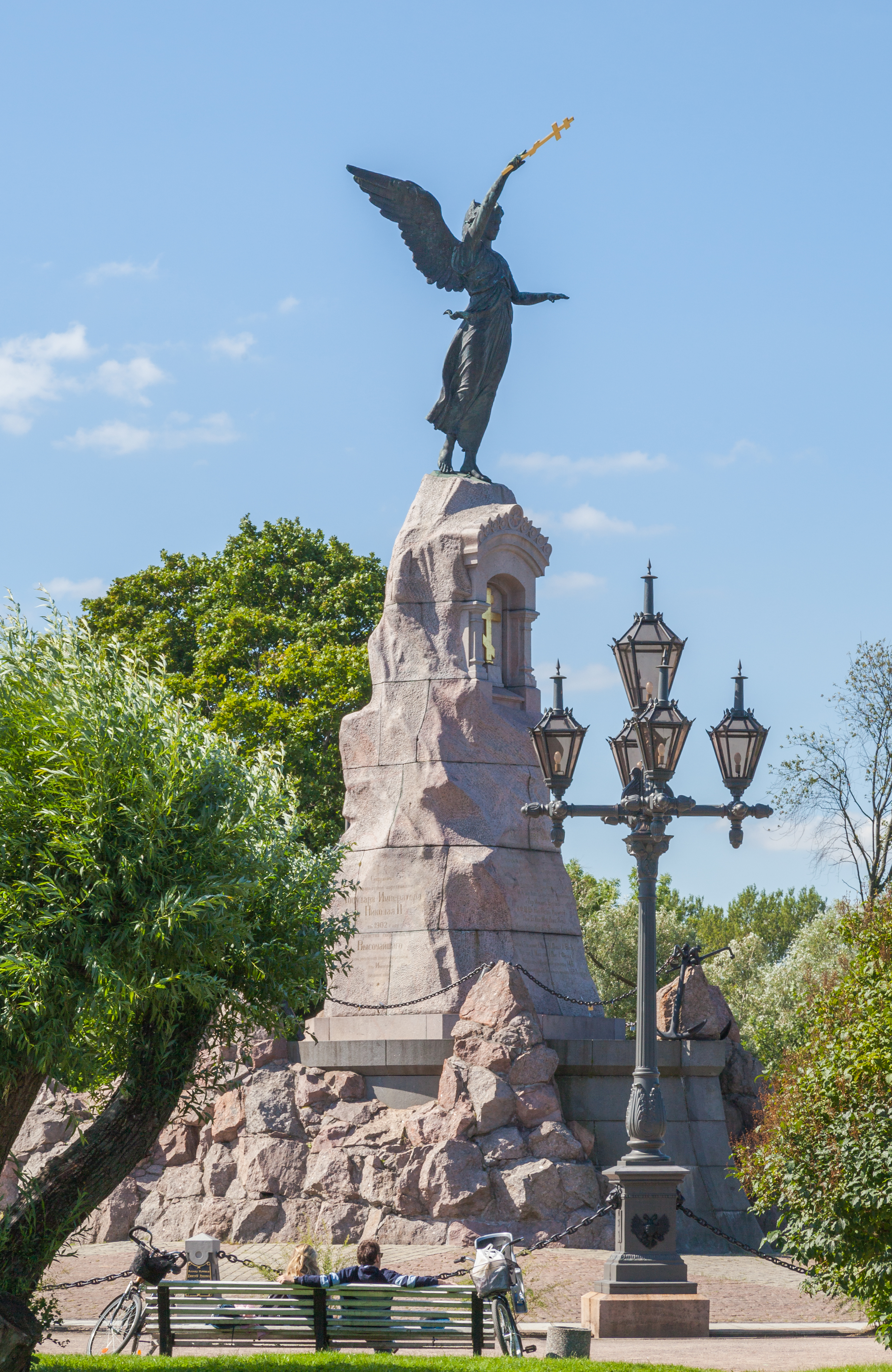 Rusalka Memorial, Tallinn, Estonia